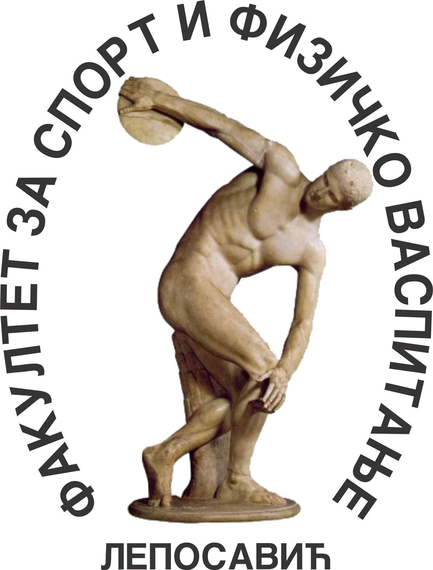 Logo of faculty